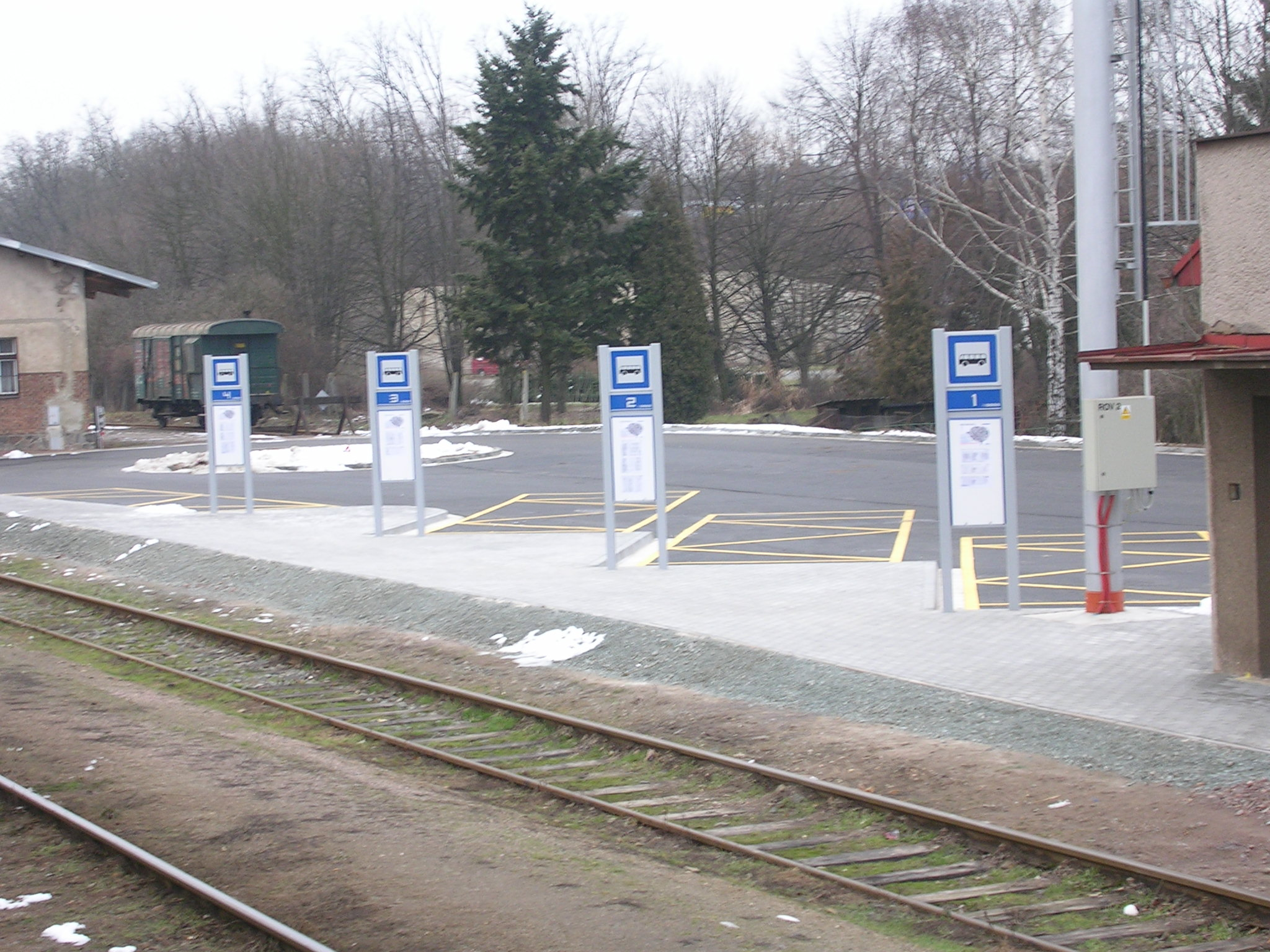 bus station Častolovice, front of the train station, Czech Republic